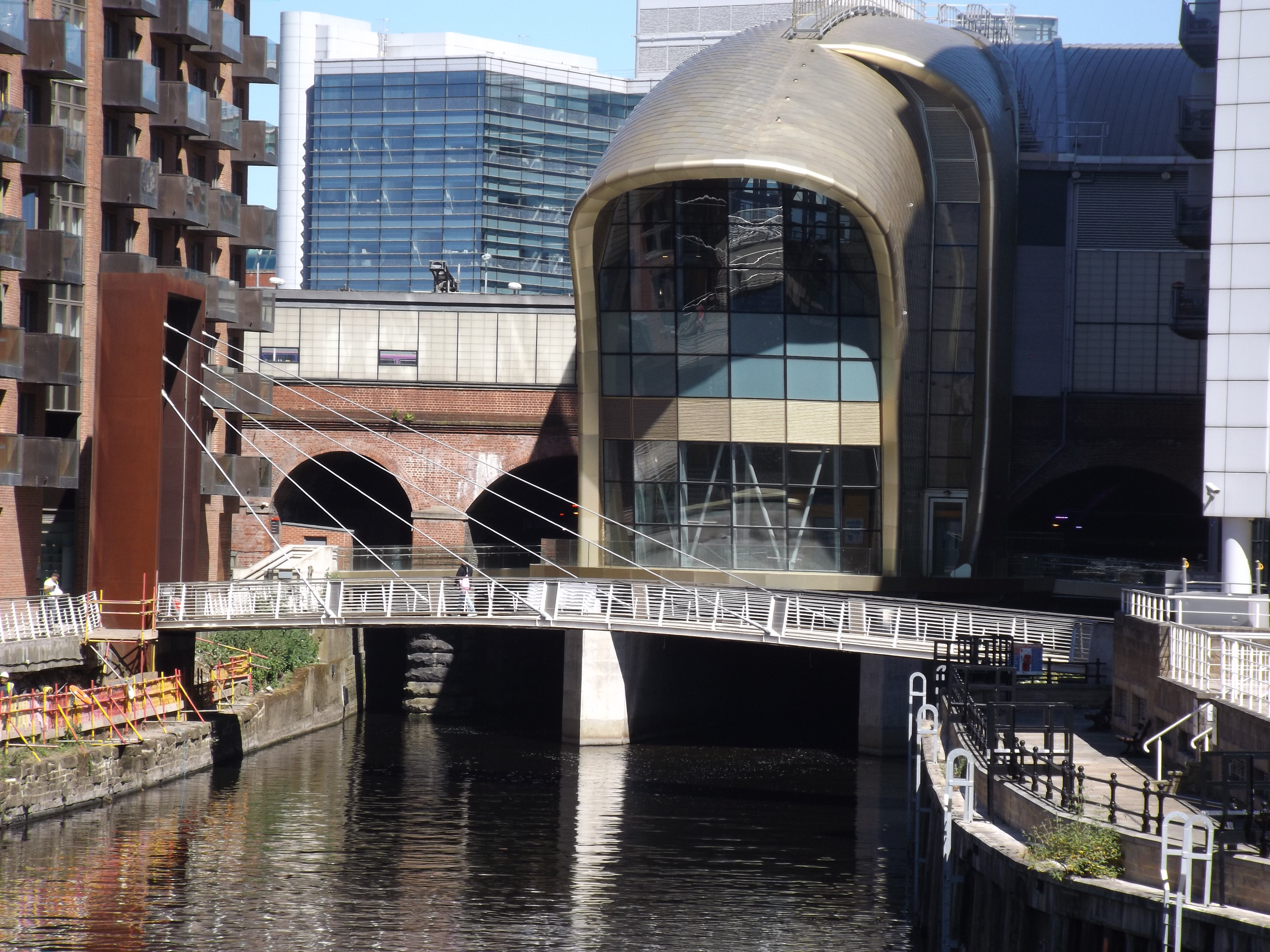 Leeds railway station, southern entrance. The river Aire flows under the station.